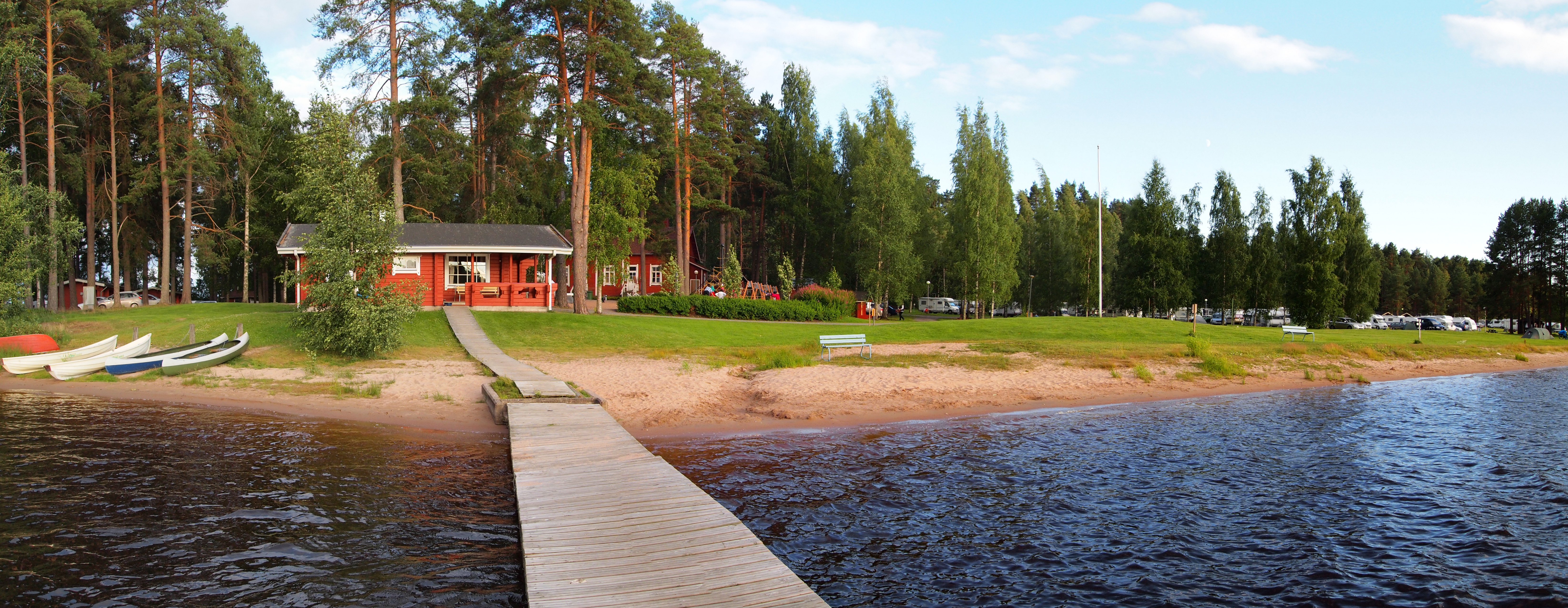 Toivolansaari camping area in Ikaalinen. This photograph was taken with an Olympus E-PL1